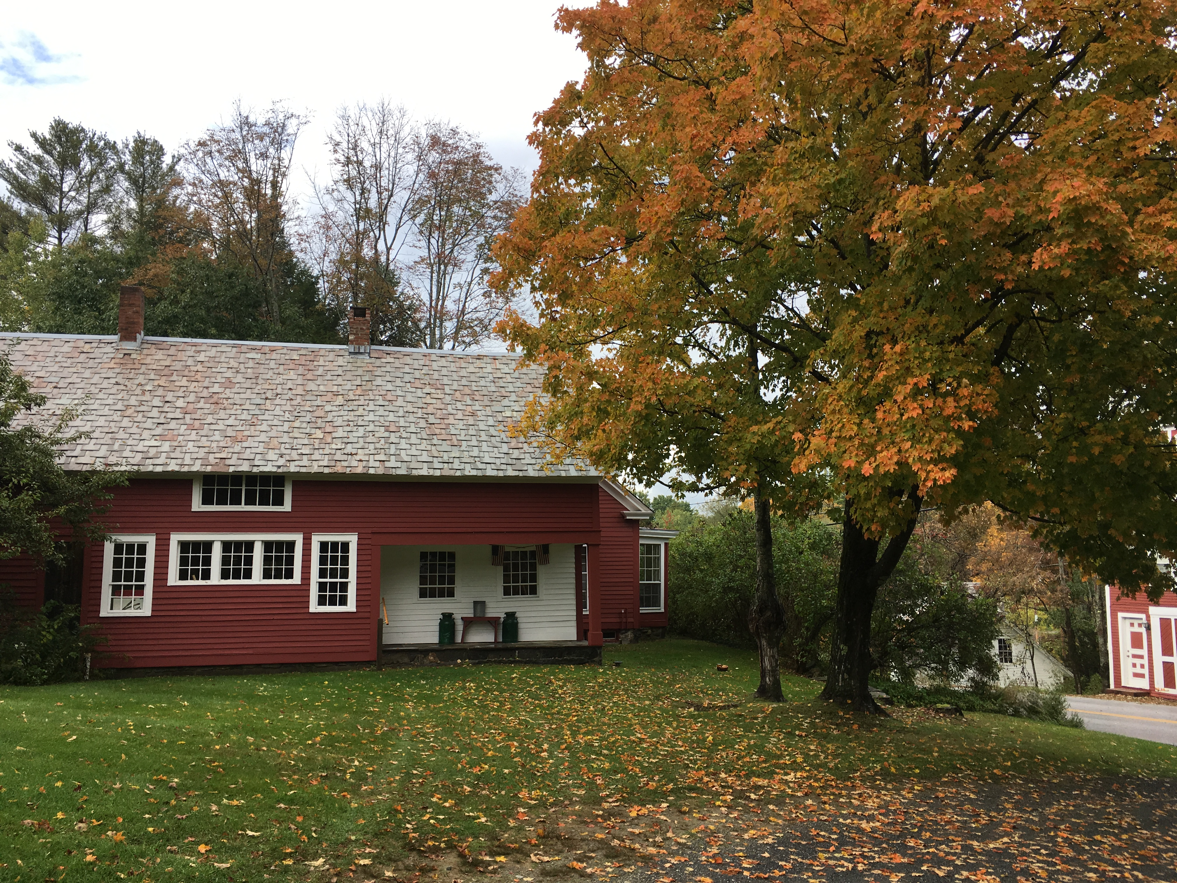 The Custer-Sharp House in Londonderry, Vermont. Currently maintained by the Londonderry Arts and Historical Society.